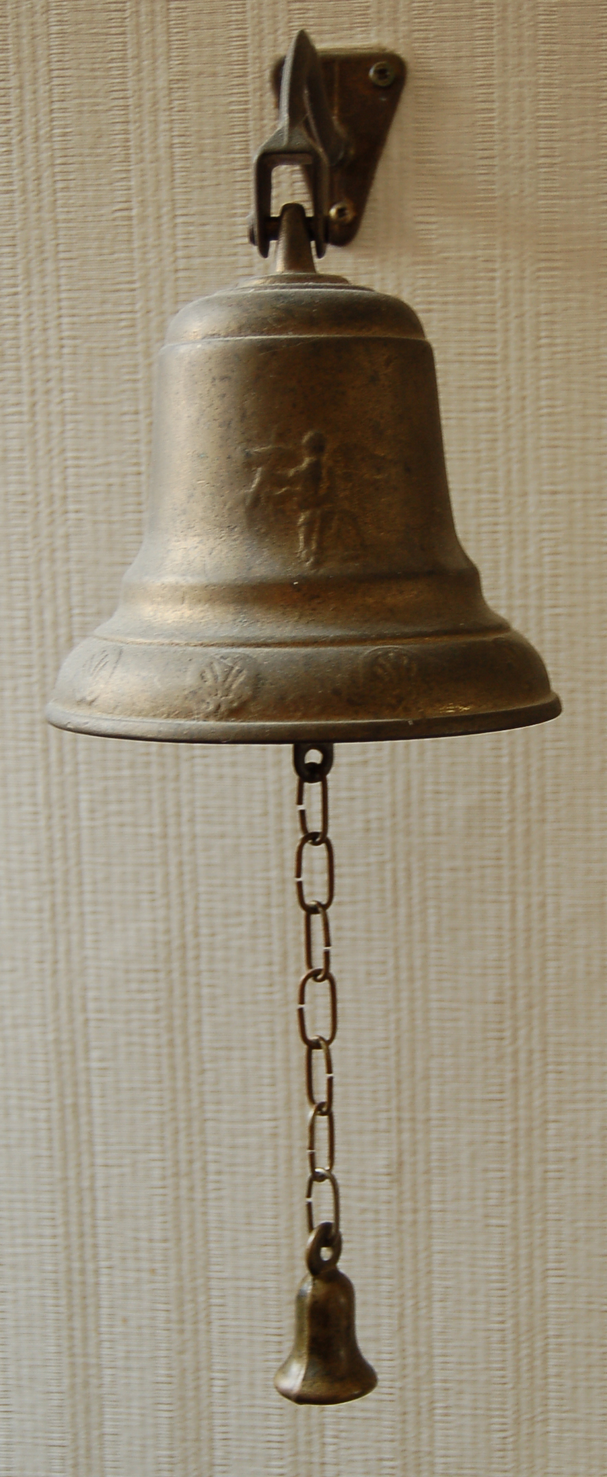 cloche bell